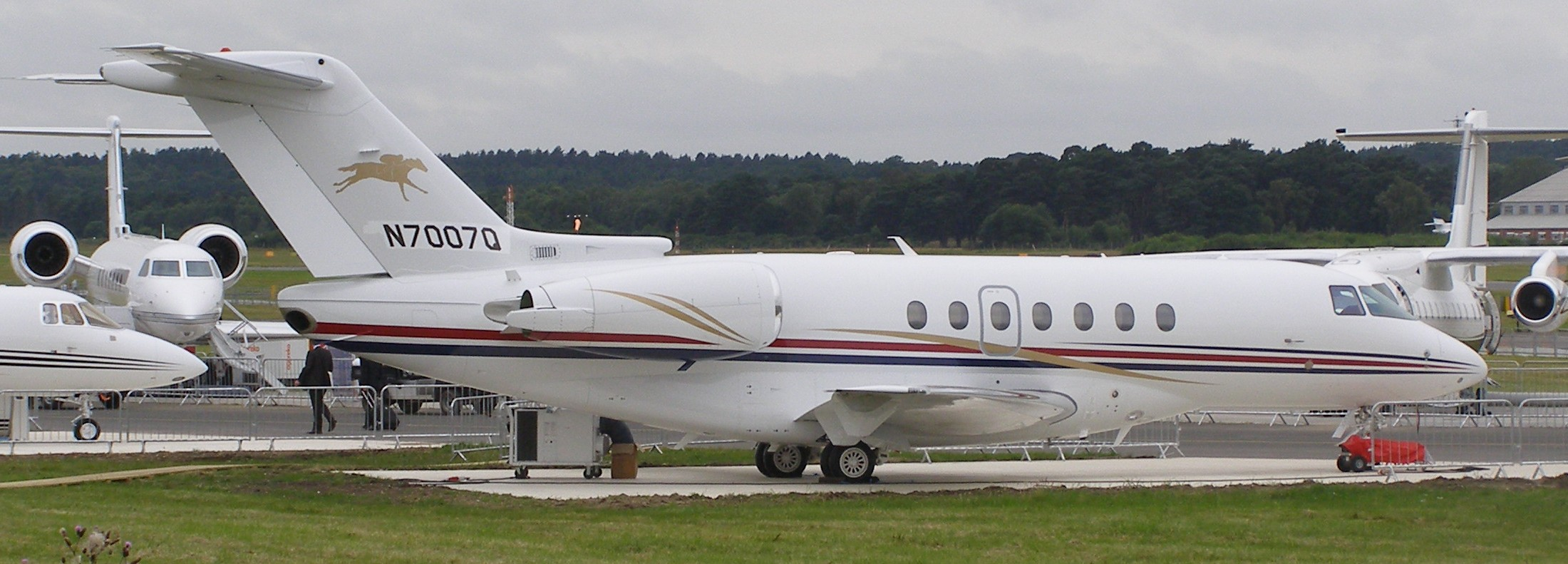 Hawker 4000 (registration N7007Q, msn RC-6) on display at Farnborough Airshow 2008